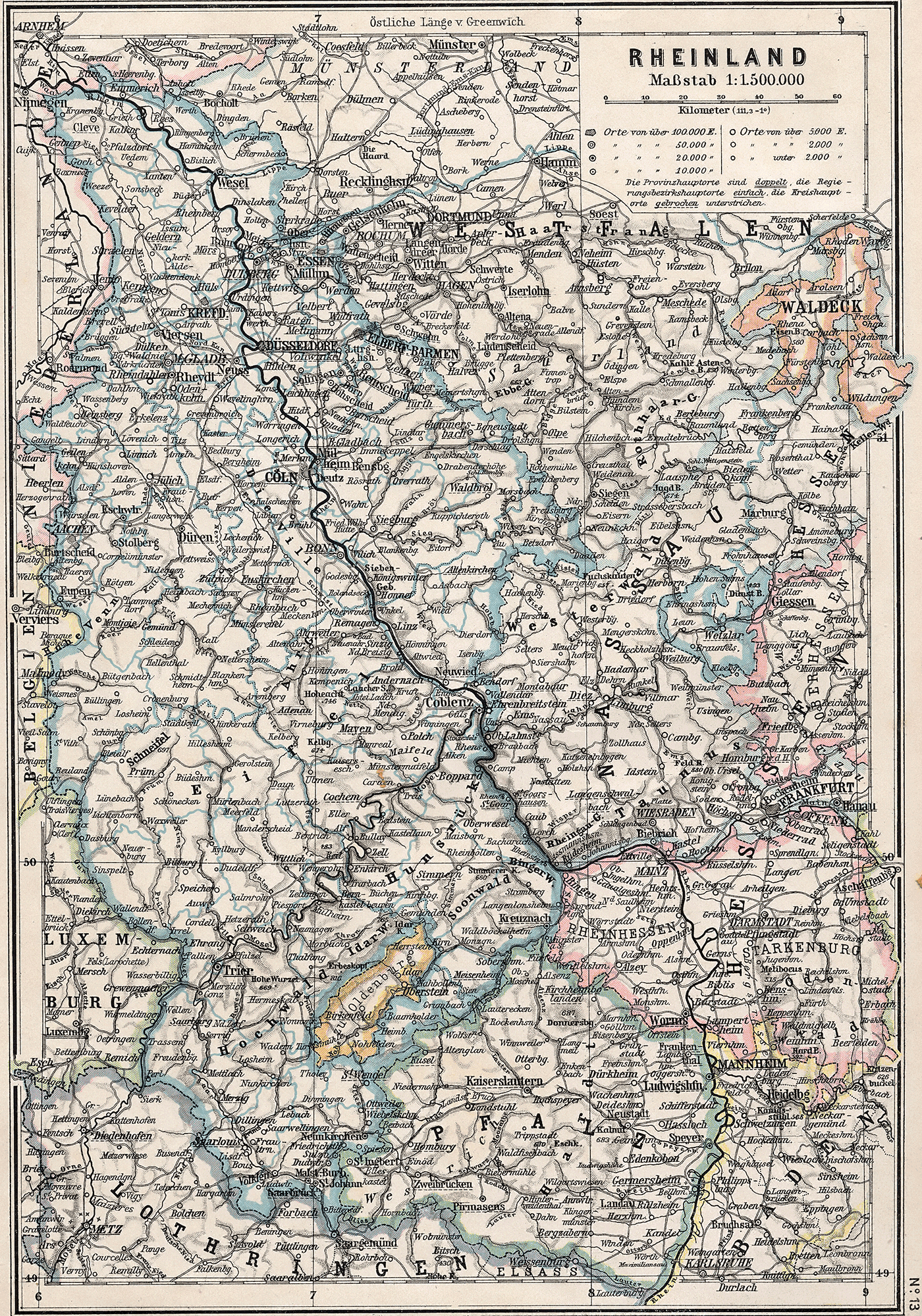 Historical map of Rheinland 1905